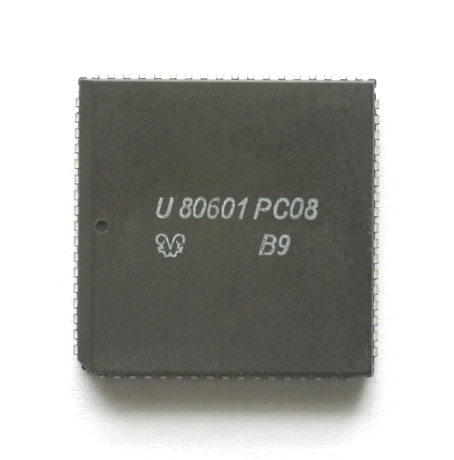 CPU MME U80601 PC08 (= Intel 80286)